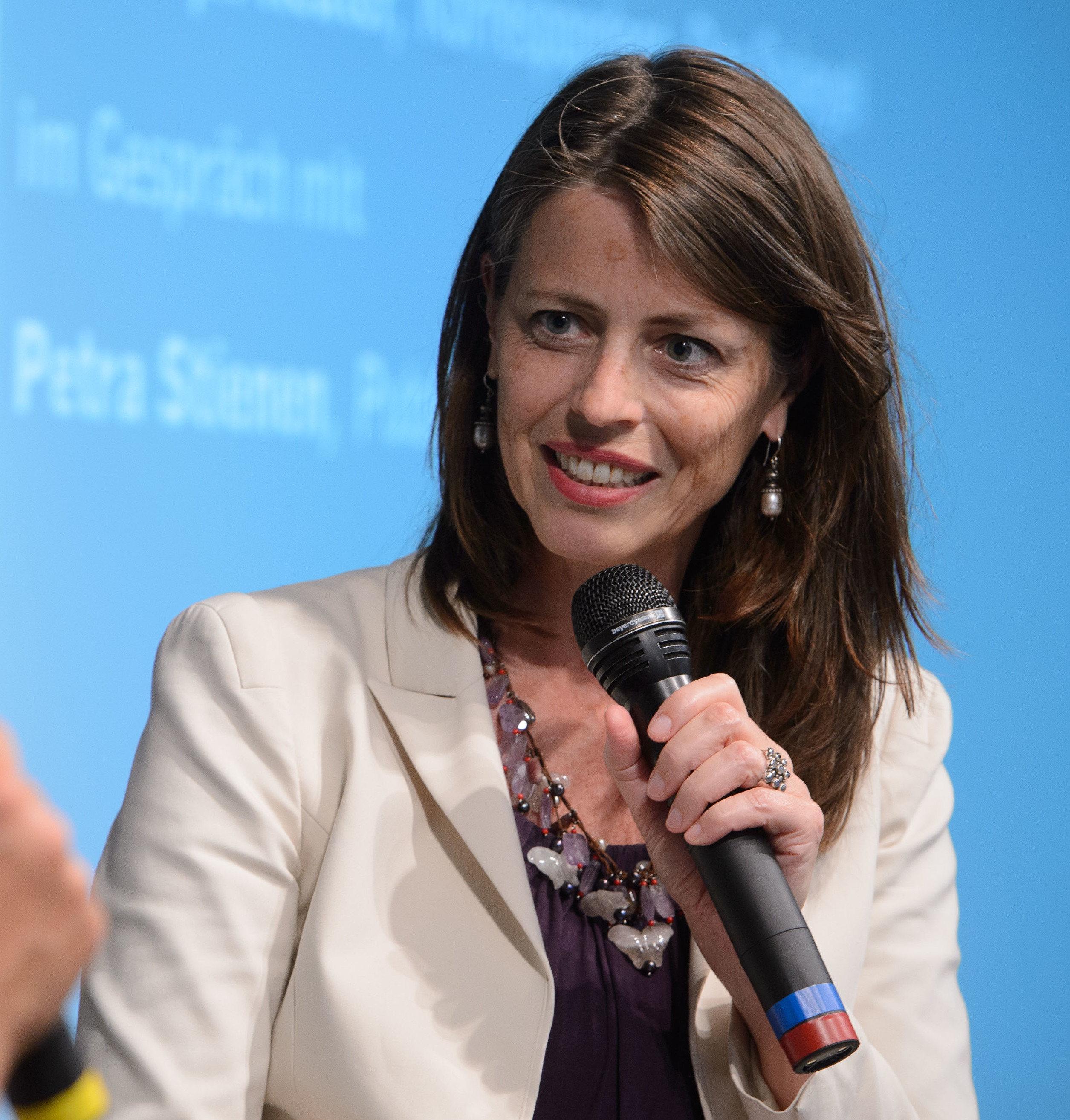 Petra Stienen (Publizistin, Den Haag), Foto